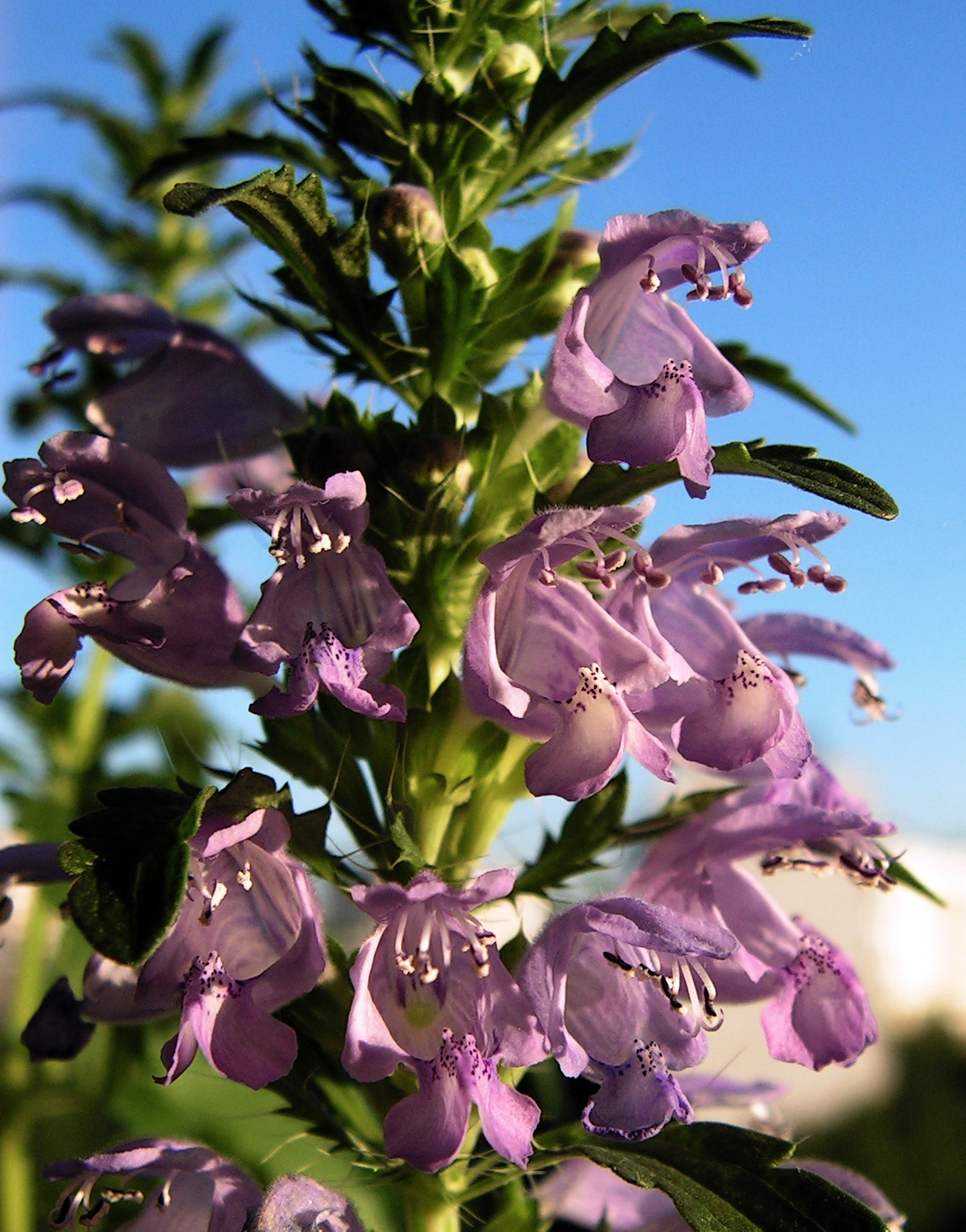 Cultivated Dracocephalum moldavica ‘Горыныч’.